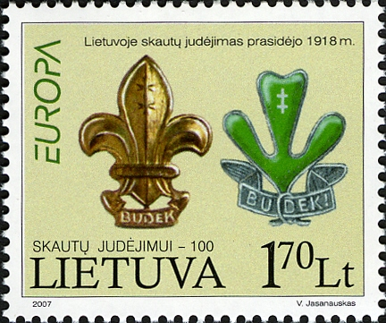 1.70 L. multicoloured. Symbols of Lithuanian Scouting